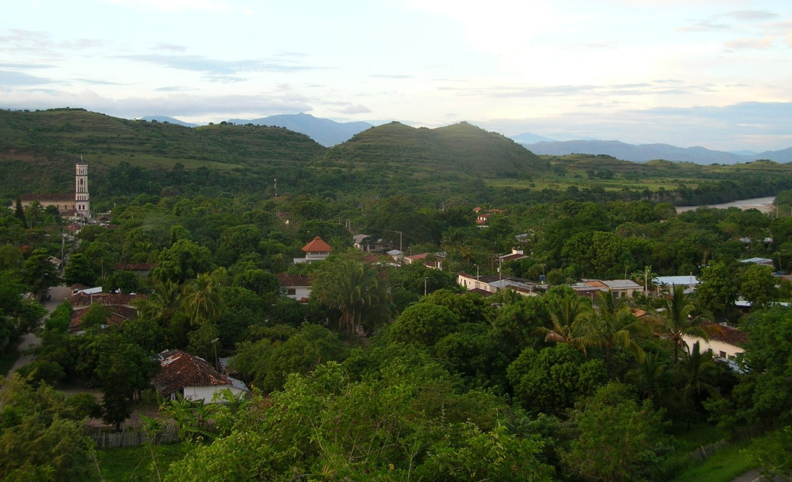 panorámica